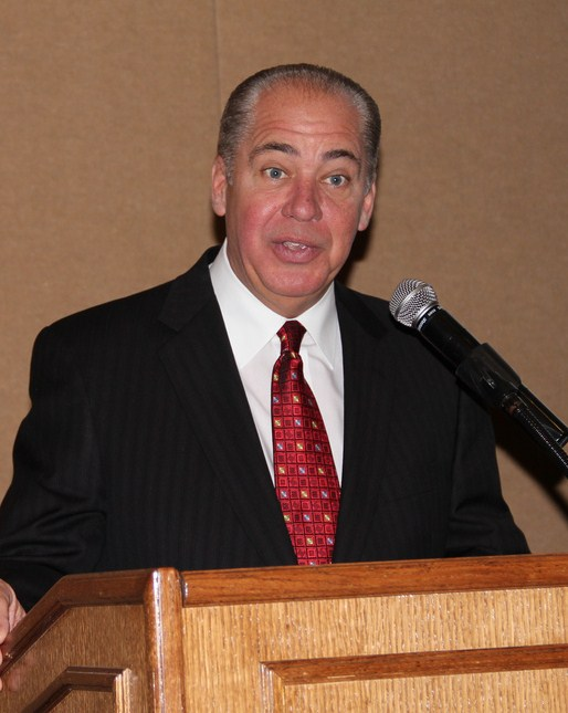 Earl Ray Tomblin